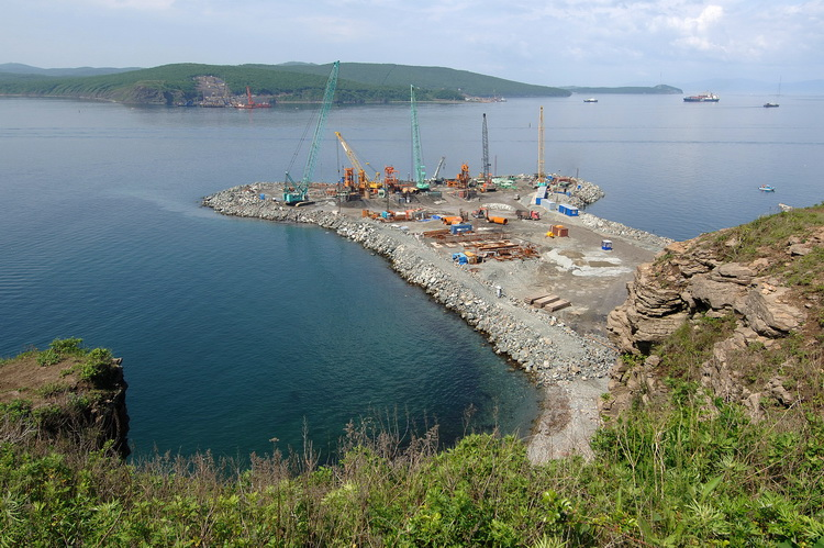 Construction of Russki Island Bridge